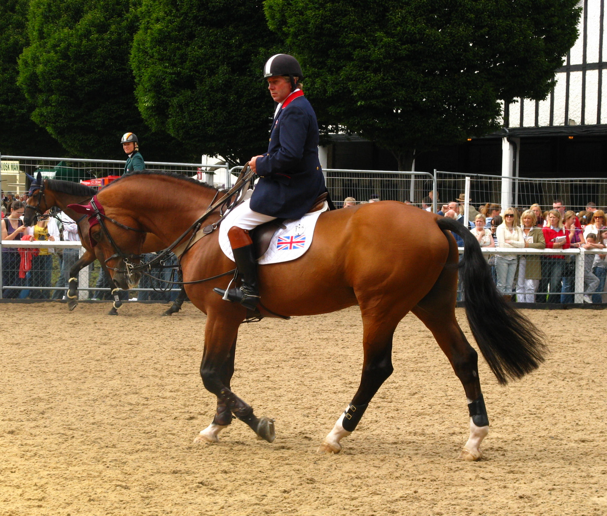 Nick_Skelton_&_Arko_III in the old international practise arena, Dublin CSIO5* - Fri. 8th Aug. 2008